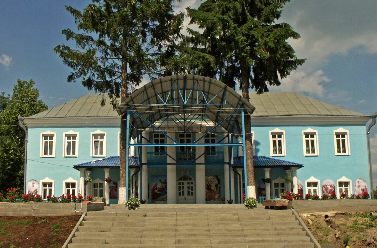 Palace of Teodor Shteingel, Horodok, Rivne Raion